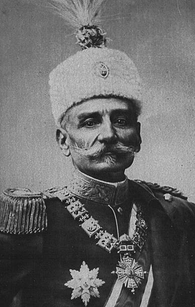 Peter I Karageorgevich, Peter I of Serbia, 1844-1921